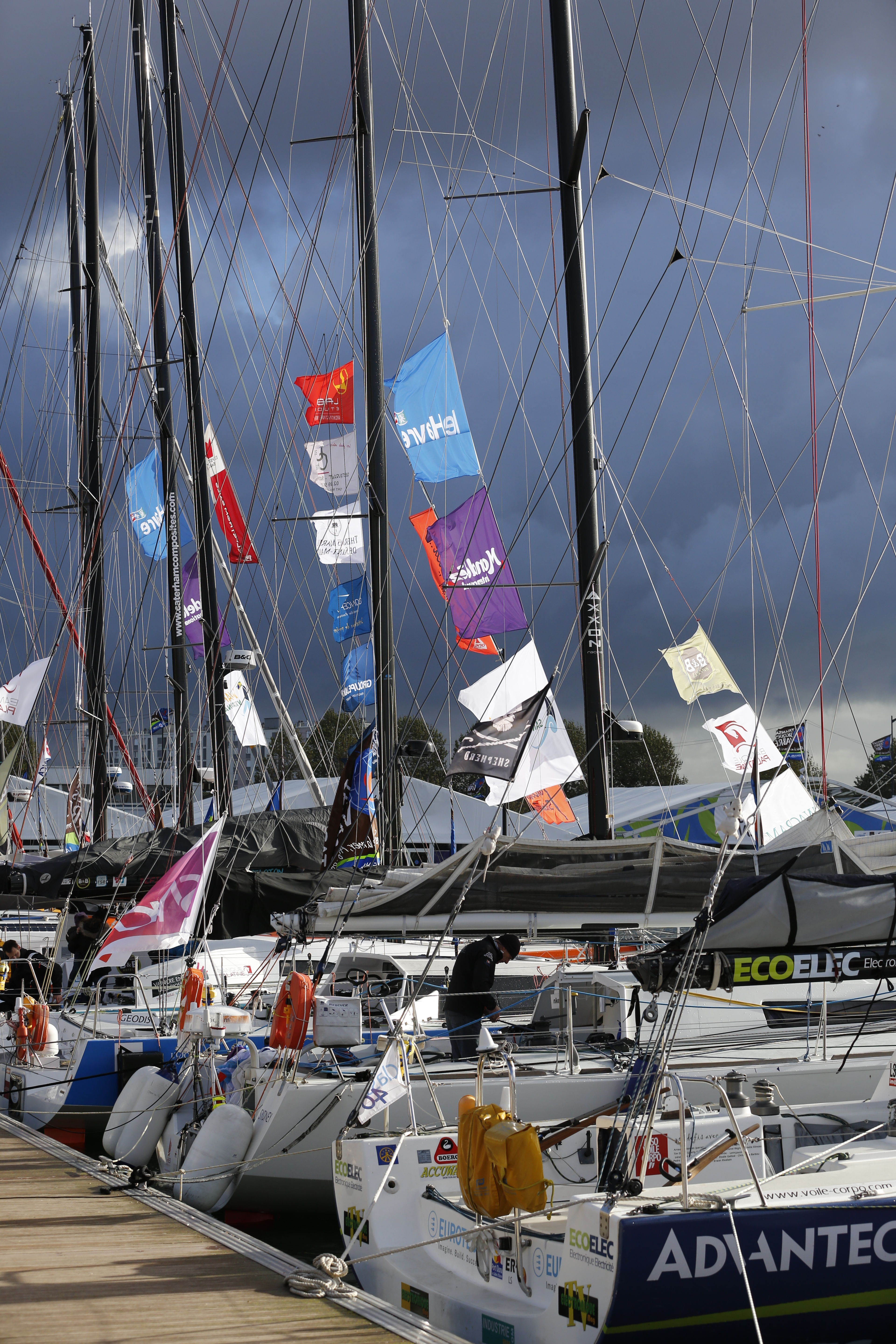 Class 40 waiting for the departure of Transat Jacques Vabre in Le Havre, 3 November 2013.